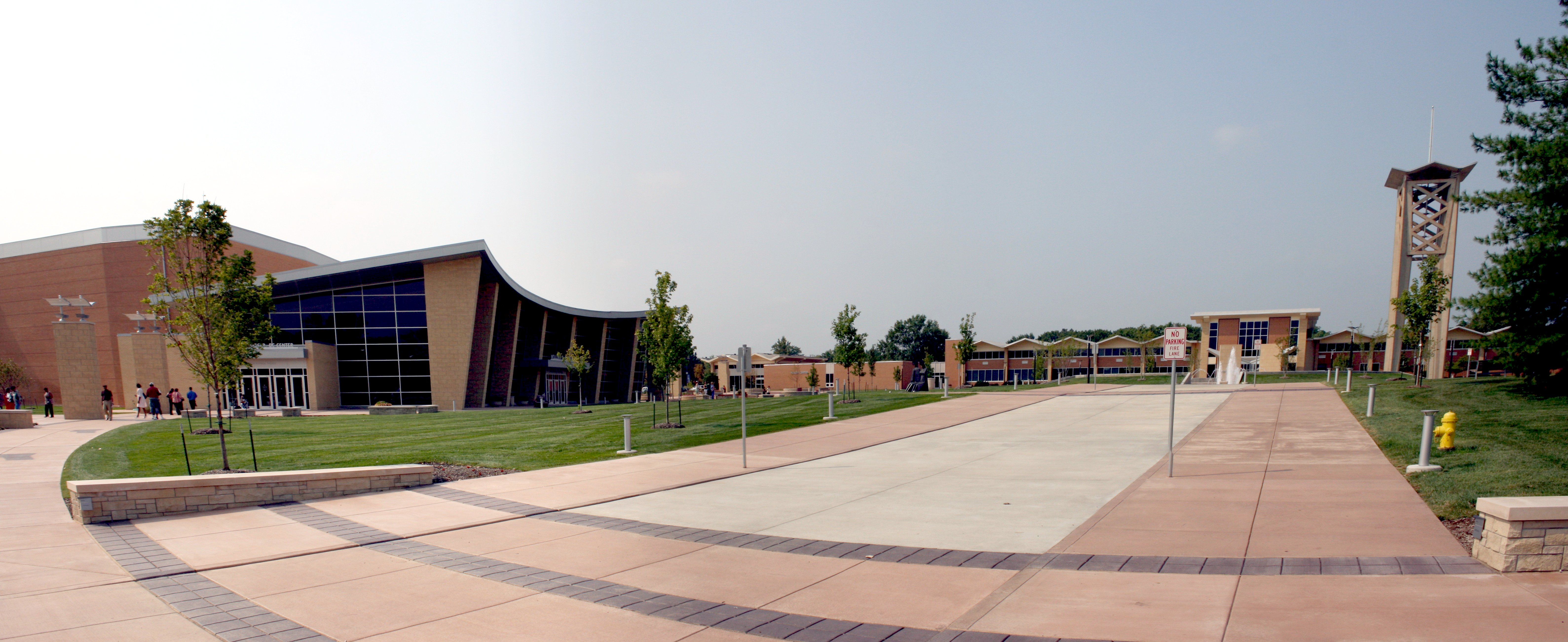 Logan College of Chiropractic stitched panoramic